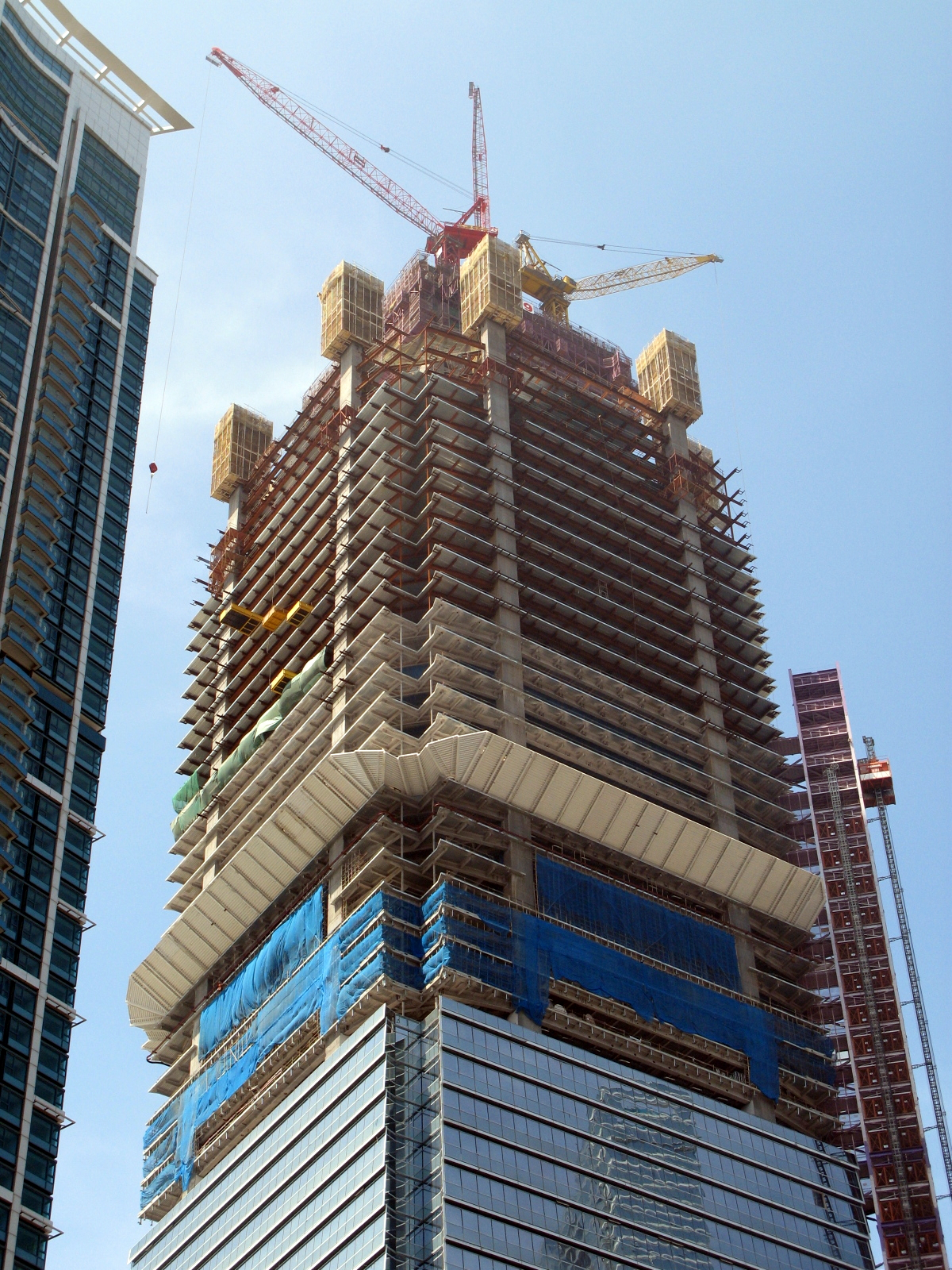 International Commerce Centre 興建中的環球貿易廣場（2007年9月）